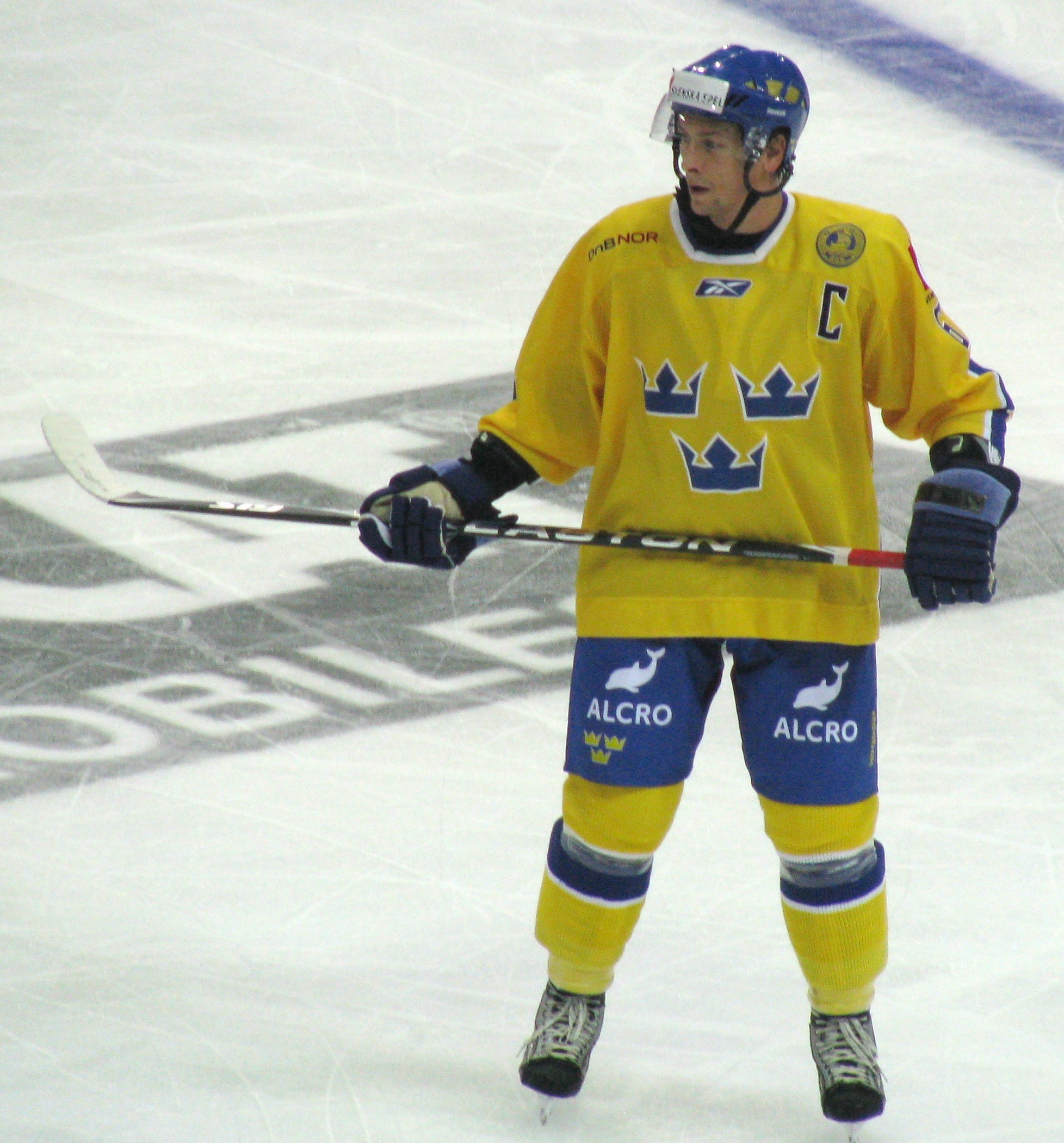 Magnus Johansson (Sweden) in a match against Finland